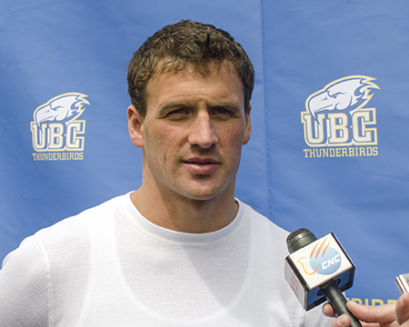 Picture of swimmer Ryan Lochte speaking to media gathered for the 2013 Mel Zajac Jr. International swim meet at the University of British Columbia in Vancouver, Canada.